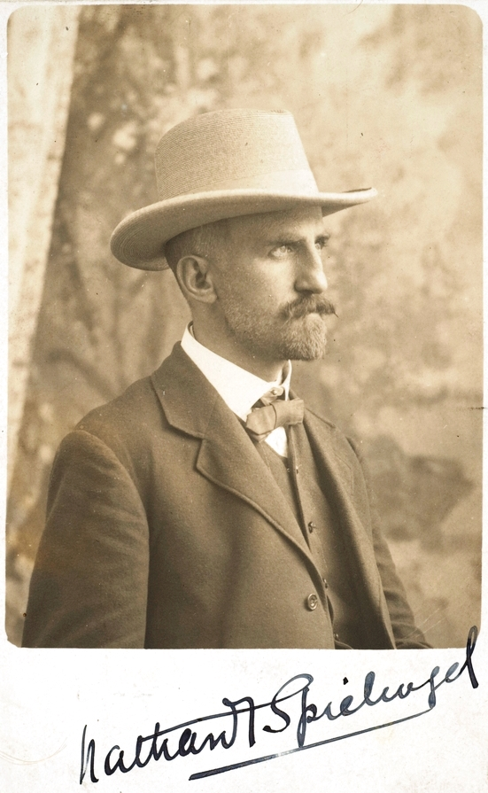 Photographic bust portrait of Spielvogel wearing three-piece suit, bow tie, and pale stiff-brimmed felt hat.